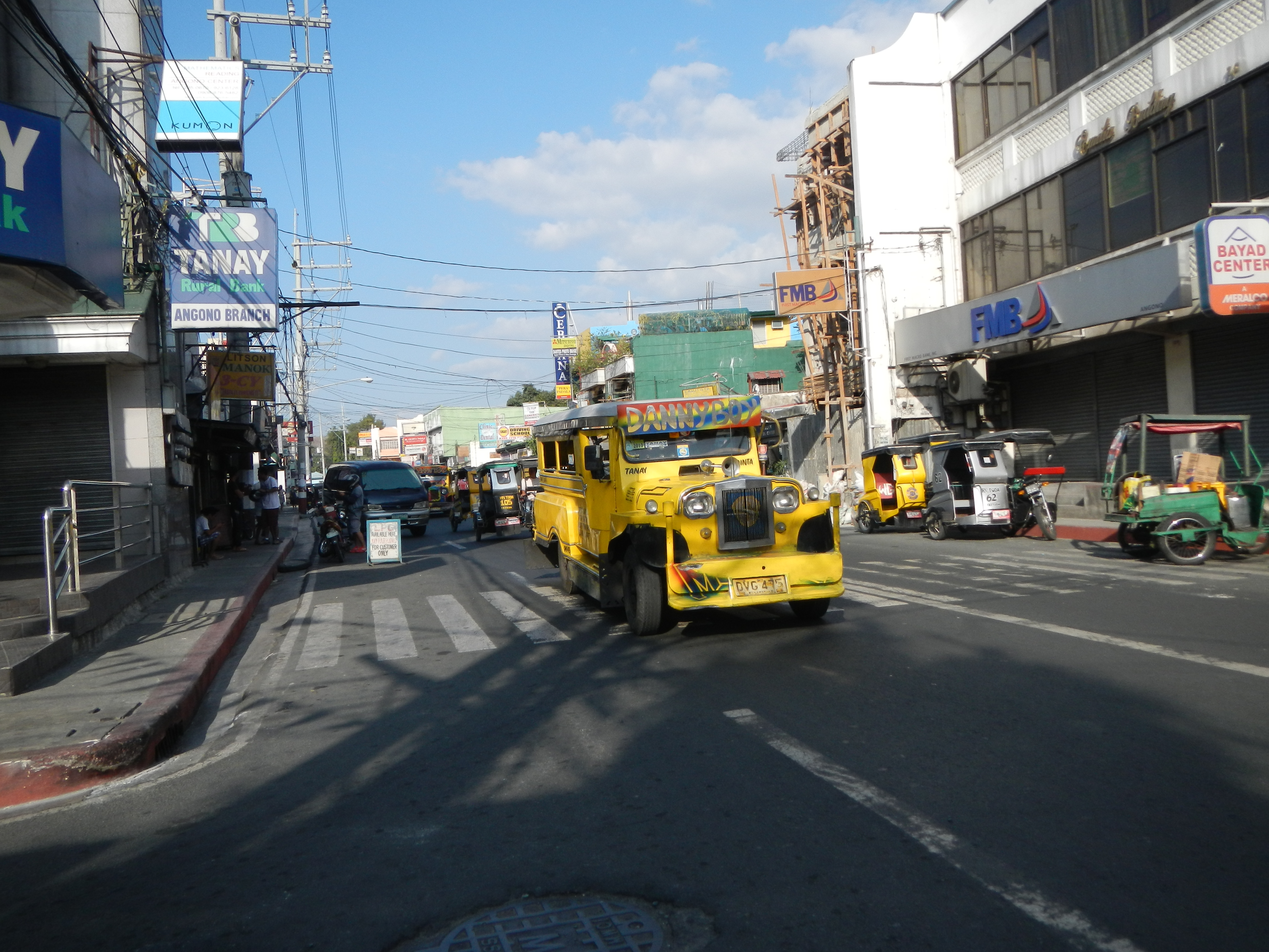 Angono, Rizal Rizal AngonoTown Proper, the busy National Highway to the Angono Town Hall Complex, Compound, ground floor, interiour, beside the Police station and Gymnasium, Multi-Purpose Covered Court, Rizal Centennial Monument and Plaza, beside the Angono Museum.